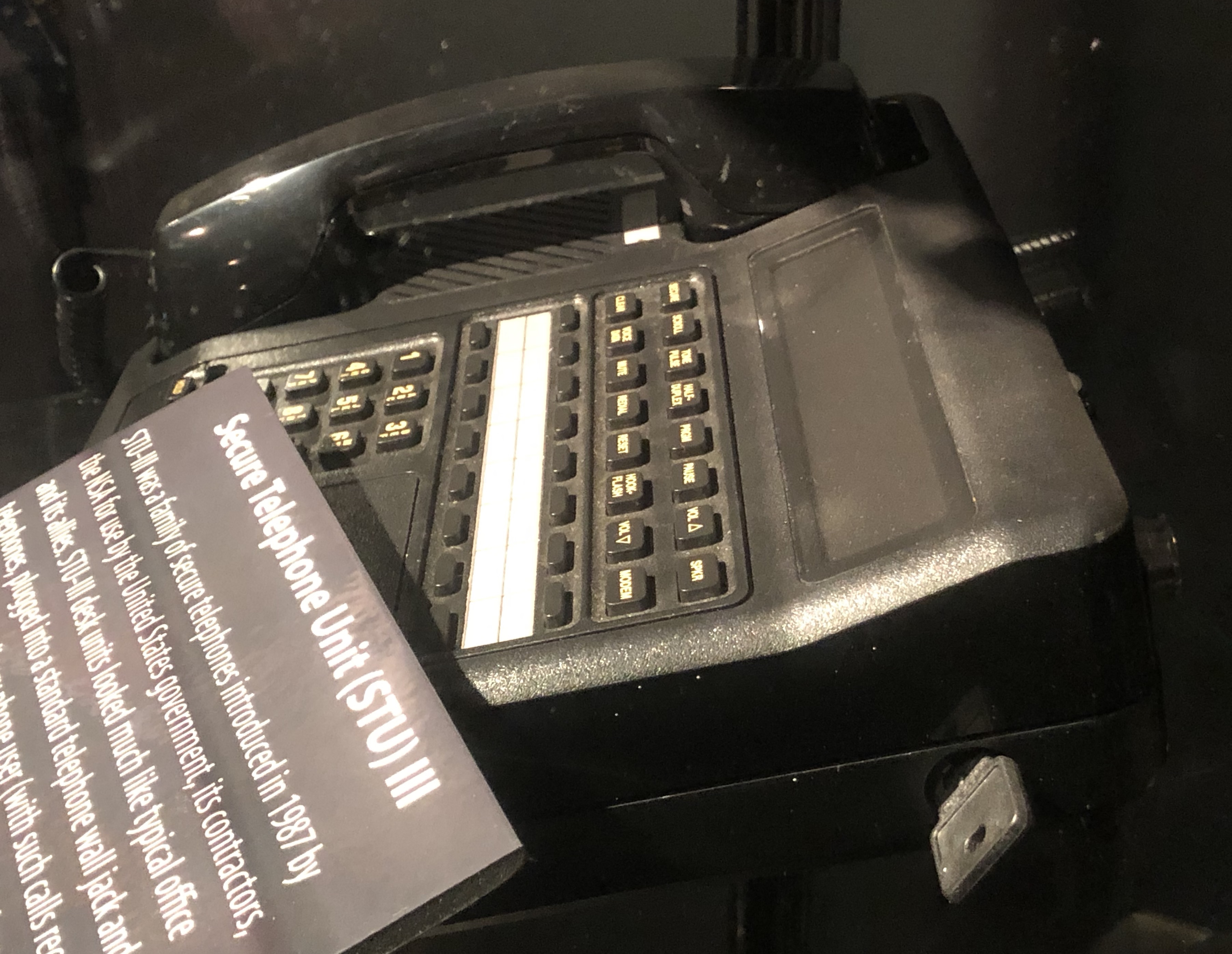 Motorola STU-III secure telephone desk set at the U.S. National Cryptologic Museum in Maryland. The "crypto ignition key" is visible on the lower right.